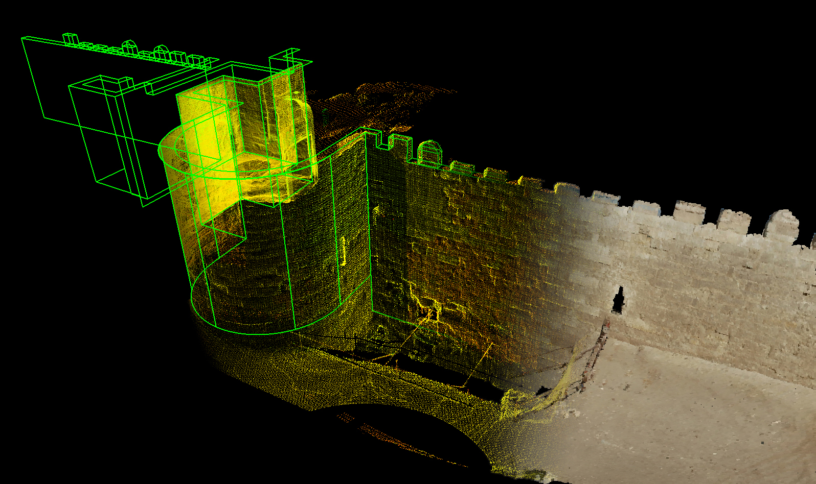 Bordering the newly-constructed Azhar Park and covered by a rubbish heap for centuries until very recently, the northern Ayyubid Wall is an extensive urban fortification, constructed of stone by the conquering Syrian Kurd Salah al-Din in 1176 CE. The wall was built to contain the existing Fatimid city in a single updated system that included previously unprotected suburbs. Located close to one of Cairo's main modern traffic arteries, al-Azhar Street, the Bab al-Barqiyya is a fortified gate of unusual design; it was constructed with interlocking volumes that surrounded the entrant in such a way as to provide greater security and control than typical city wall gates. This gate was one of several design innovations imported from Syria and speaks to the ingenuity of the Ayyubid military engineers of that time.